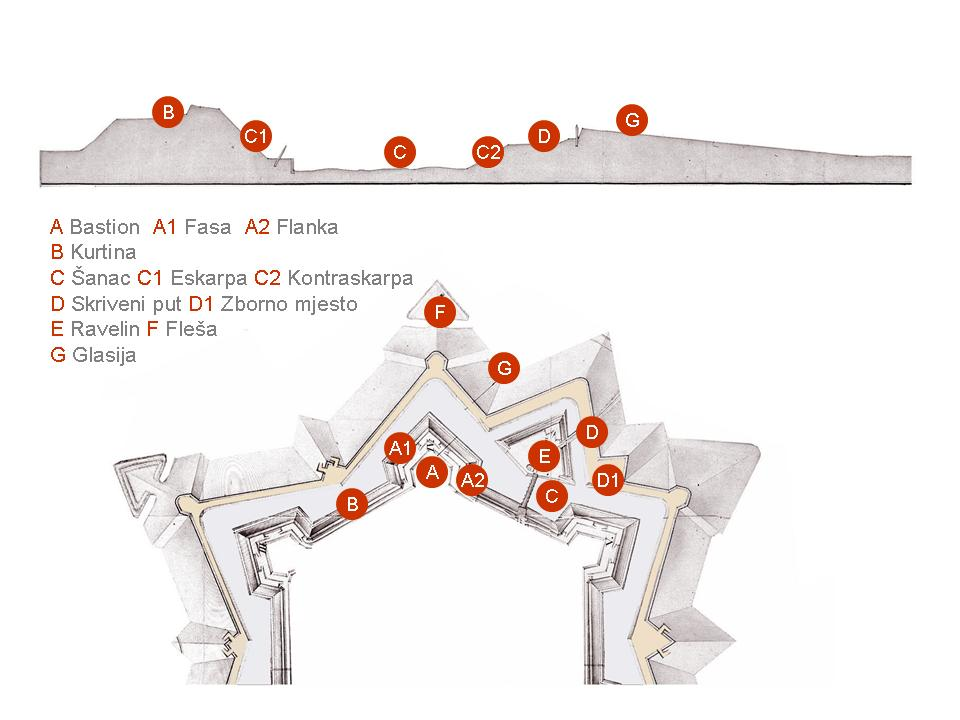 Stručni pojmovi utvrdbenog graditeljstva - od unutarnjih do vanjskih elemenata